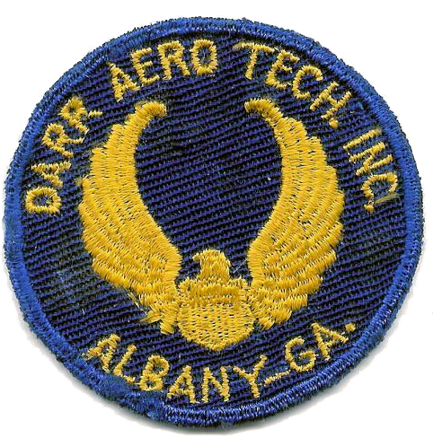 Emblem of the 52nd Army Air Force Fight Training Detachment, Turner AAF, Georgia